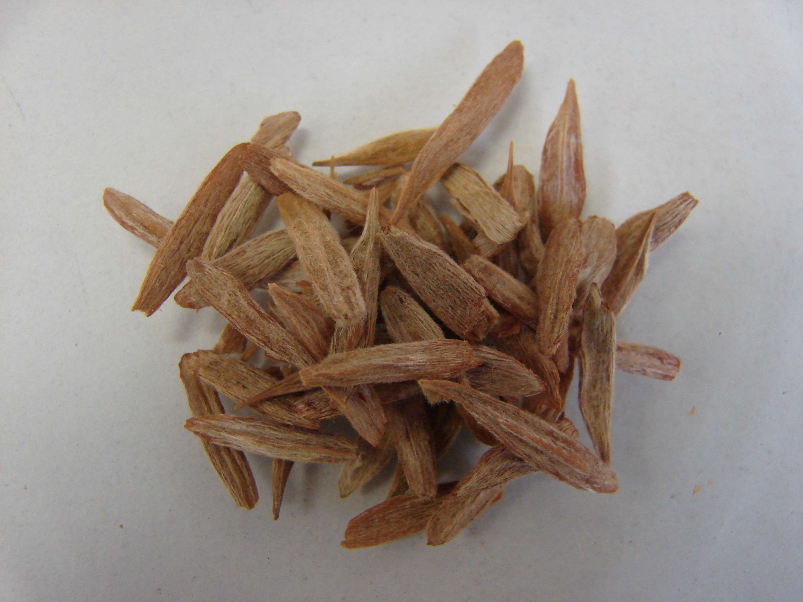 Strophanthi semen, Strophanthus kombe